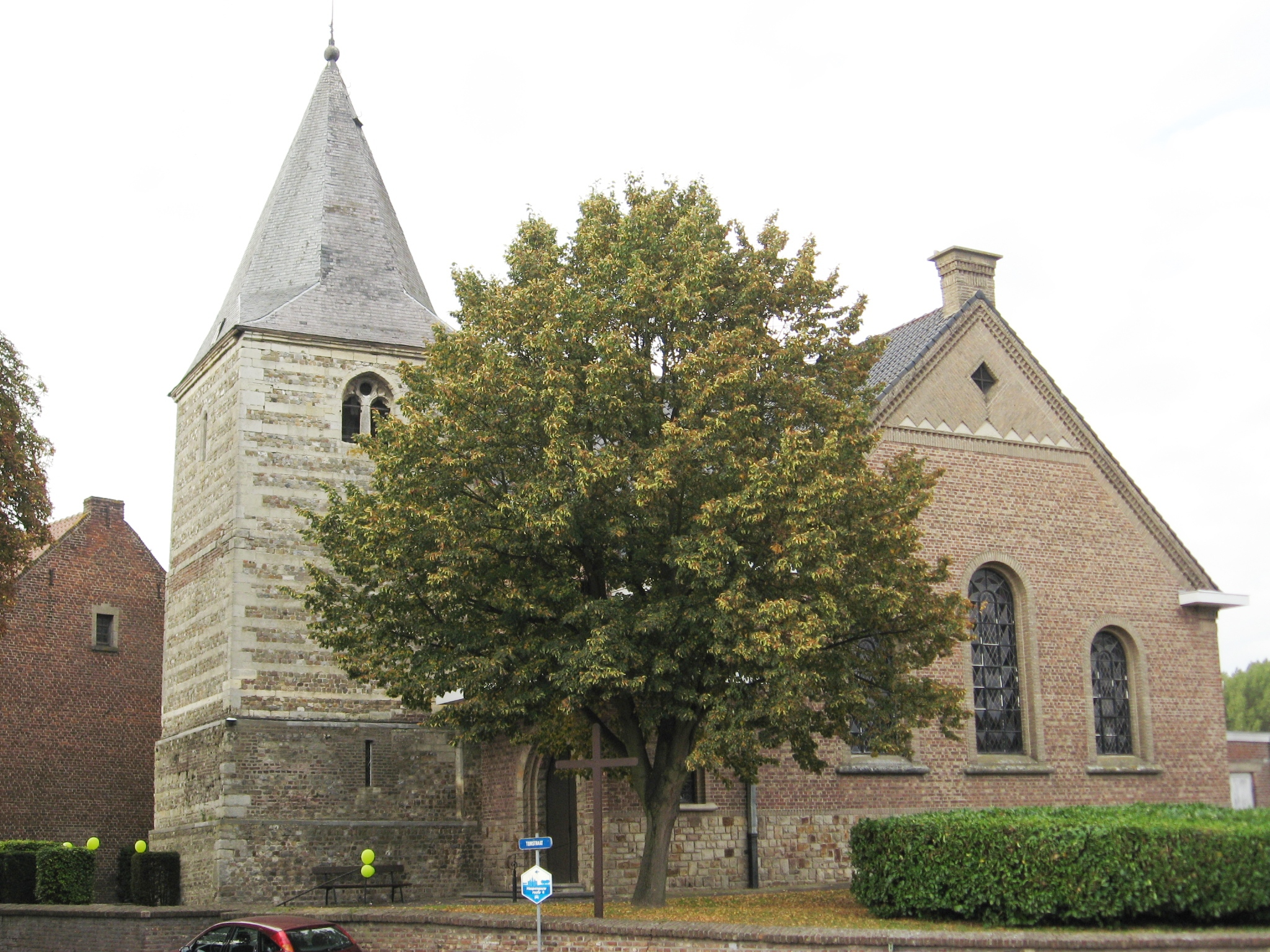 Church of Saint Gertrude in Piringen, Tongeren, Limburg, Belgium